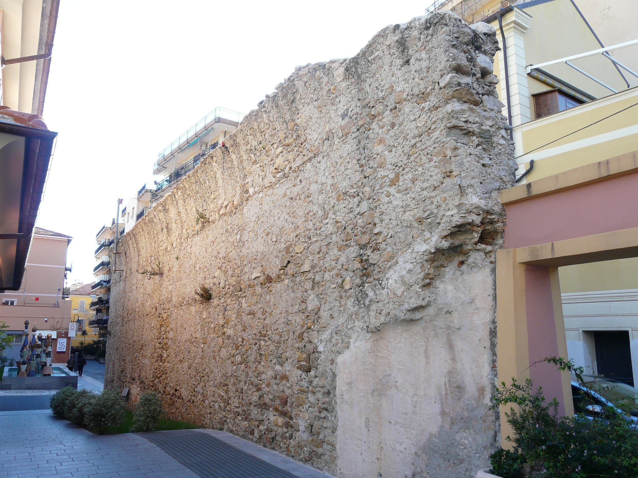 Defensive city wall of Loano, Liguria.